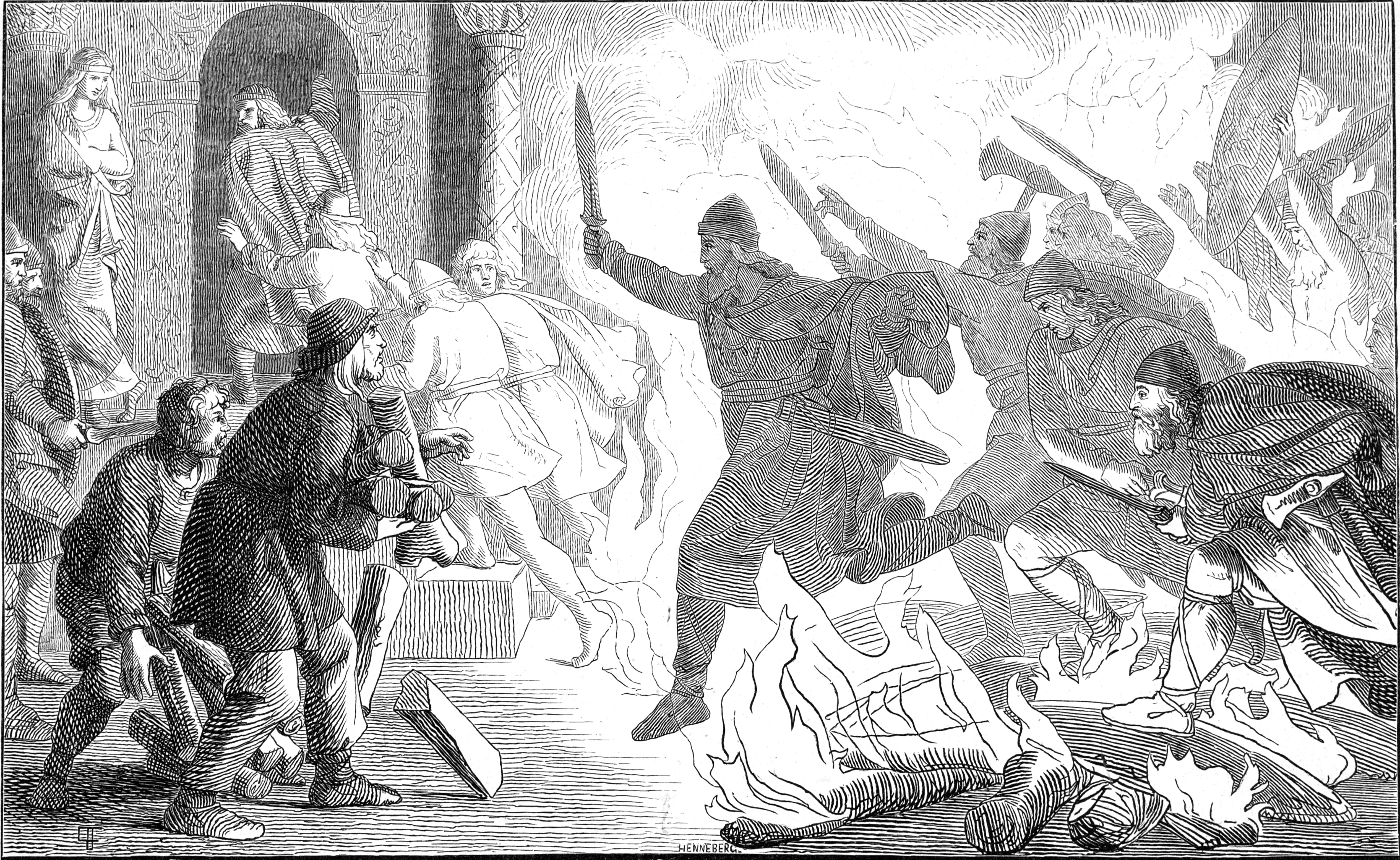 Illstration of legendary king